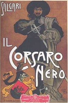 Cover for The Black Corsair by Emilio Salgari (1898), 3rd edition, 1904, illustration by Alberto Della Valle (1851-1928).